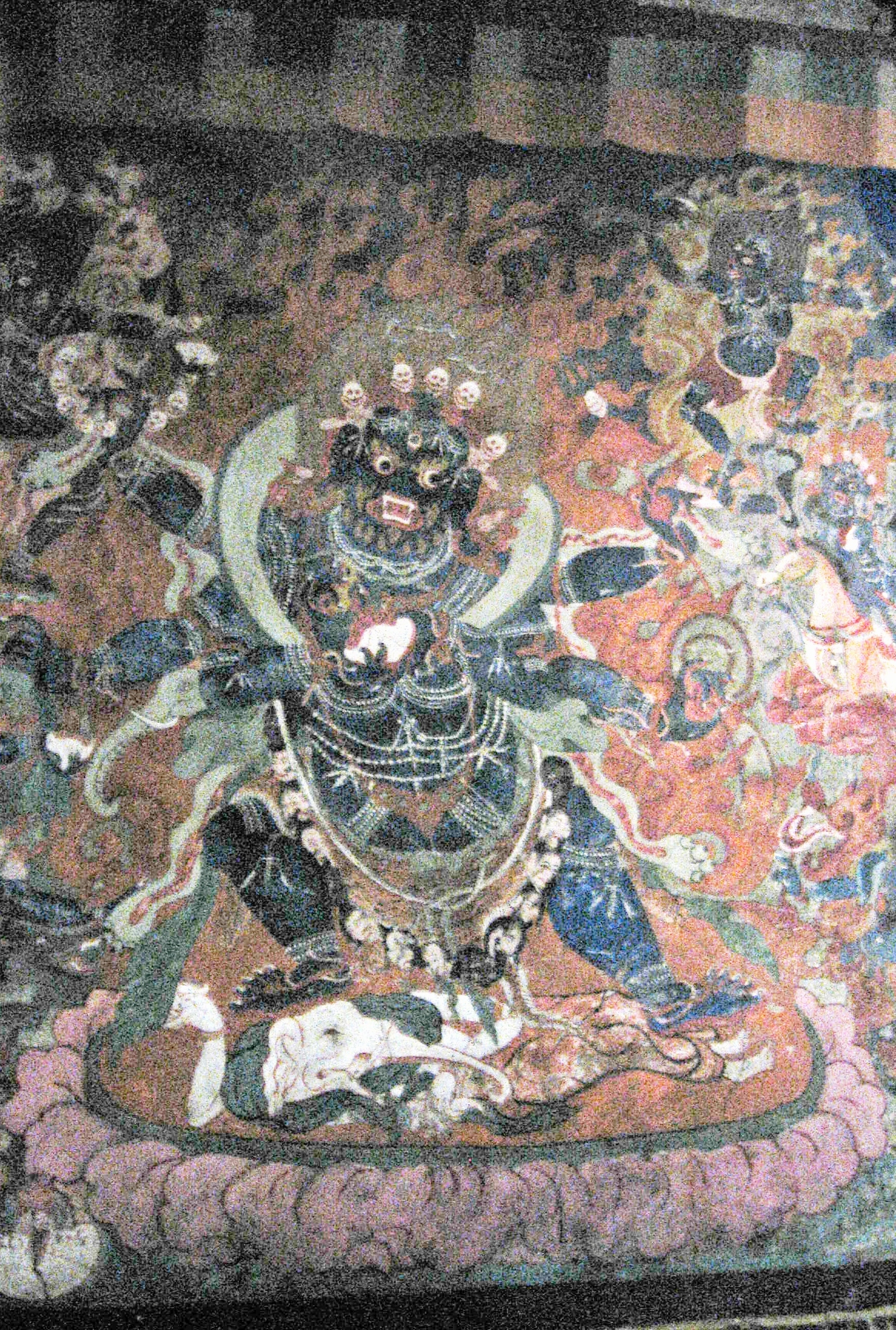 Mahakala Tikse